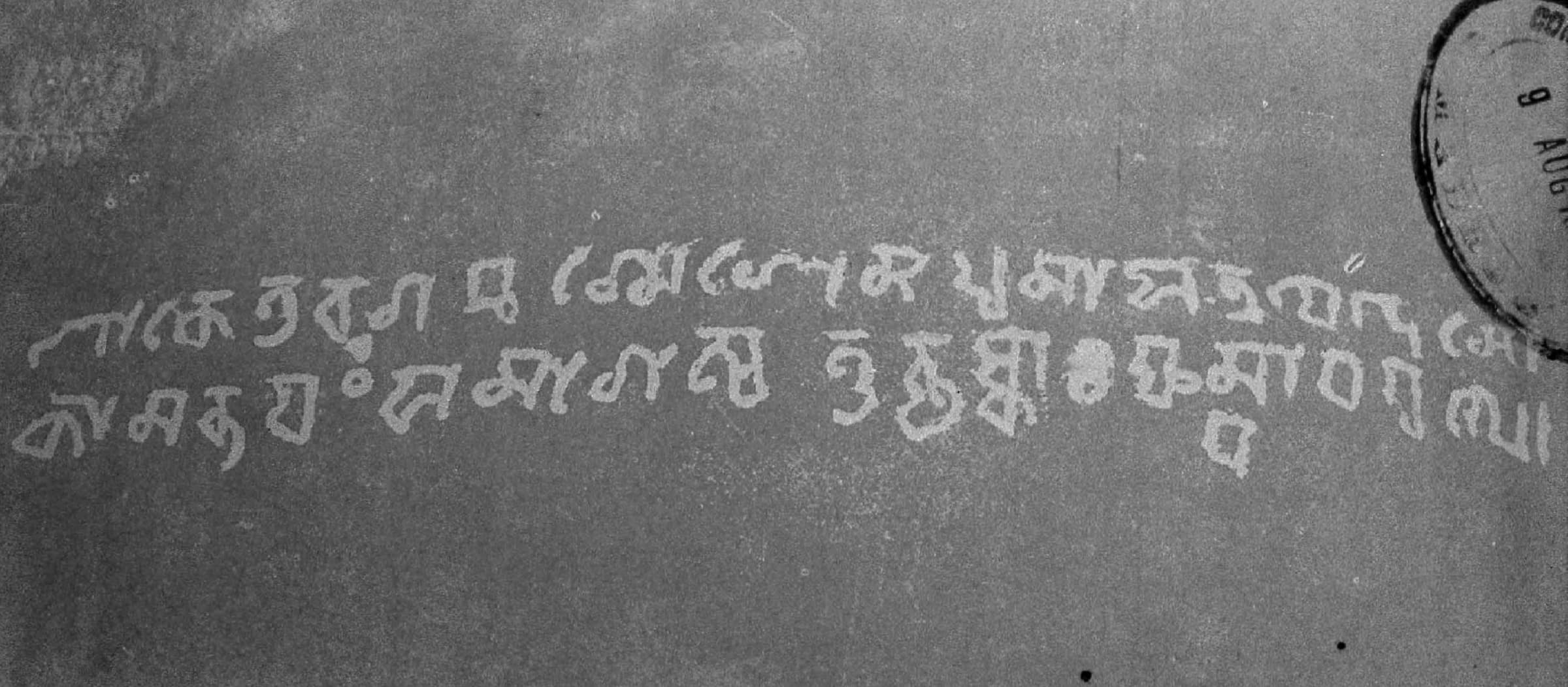 The picture depicts a 1206 rock inscription from near Guwahati, Assam, India. This image of has high historical value because it gives a significant evidence of a historical event, and the year depicted on the inscription, 1206 CE, divides the History of Assam into the ancient and medieval periods on the basis of this inscription. The image also has high historical value because it depicts the Assamese script in its historical development. The image will be used to depict both its historical significance as well as evidence of the script. Text in Sanskrit sak 1127 sake turaga yugmese. madhumase troyodose kamarupa samagatya. turushka kshayamayyu. Text in English In Saka 1127 on the thirteenth of the month of honey (Chaitra) upon arriving in Kamarupa, the Turks perished.